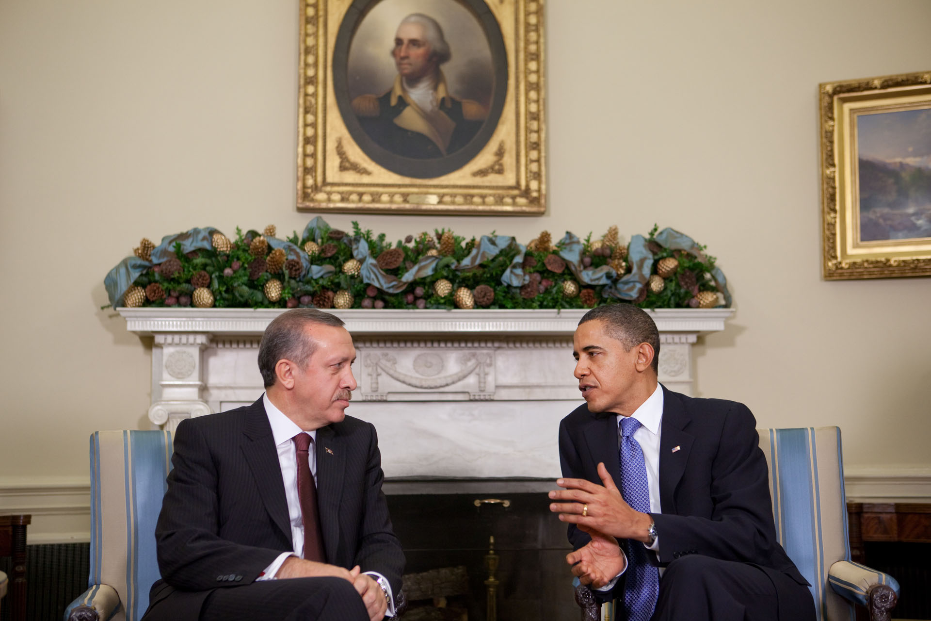 US President Barack Obama talks with Turkish Prime Minister Recep Tayyip Erdoğan in the Oval Office, December 7, 2009. (Official White House Photo by Samantha Appleton)